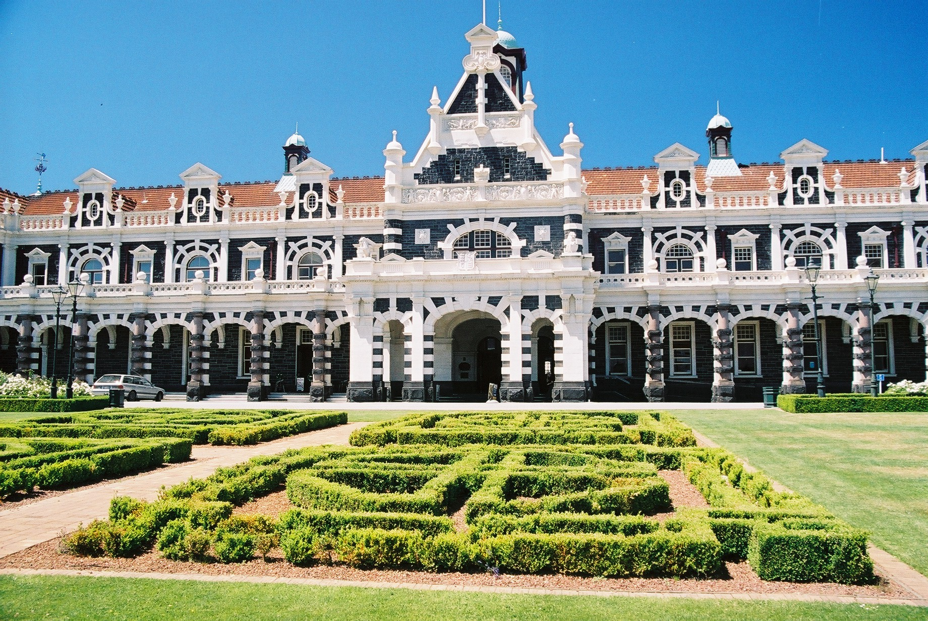 Dunedin railway station December 2003. Pentax SP5 film camera. Digitised commercially.